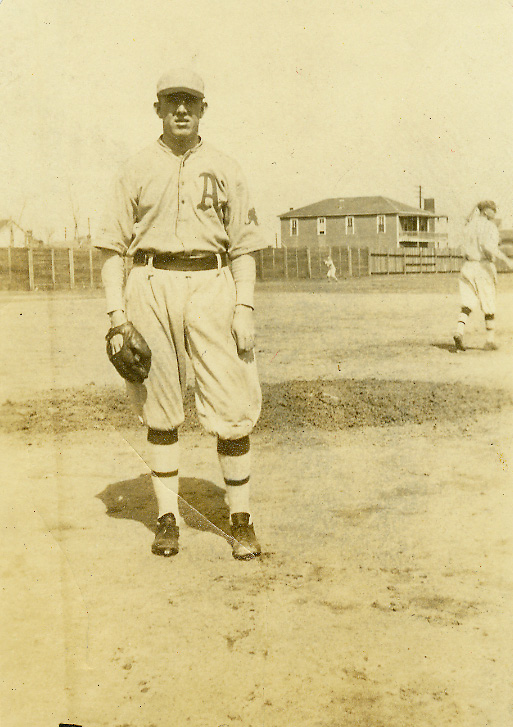 Family photo. Pat Martin is my grandfather.